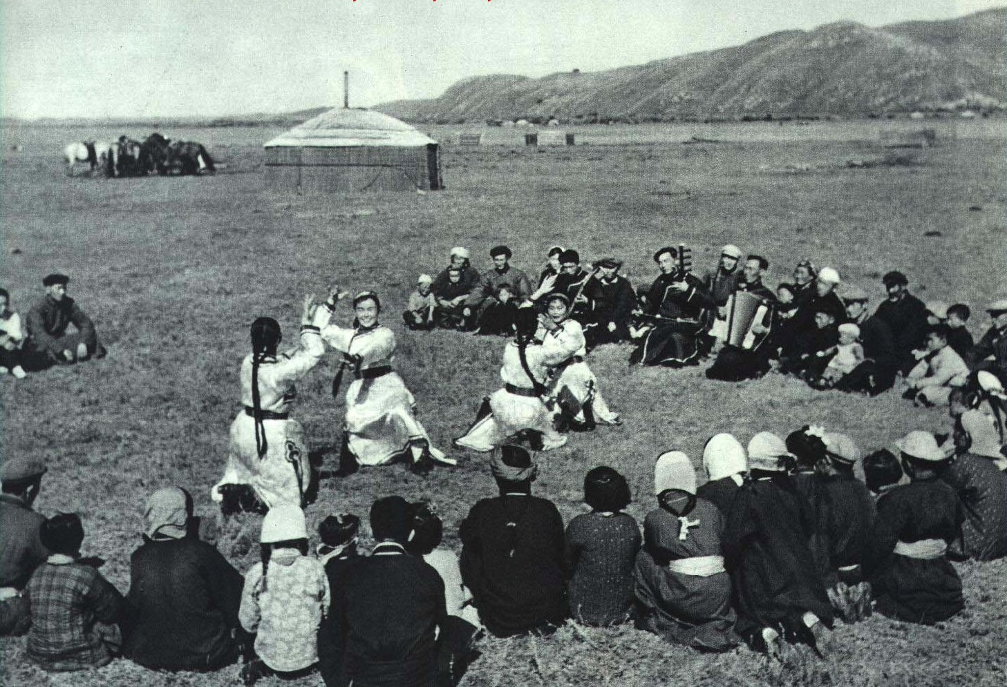 1965-02 1965 乌兰牧骑